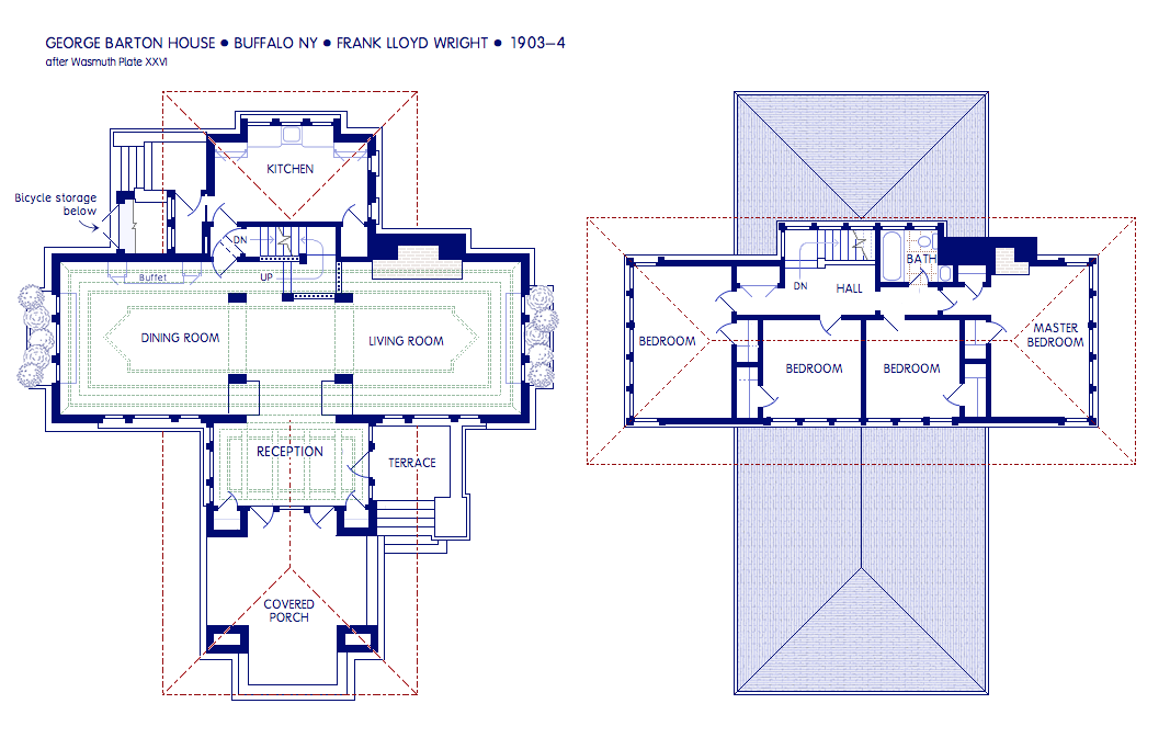 First and second story floor plans of the George Barton house, part of the D. D. Martin complex, Buffalo NY. Designed by Frank Lloyd Wright, 1903-4. After Wasmuth plate XXVI.